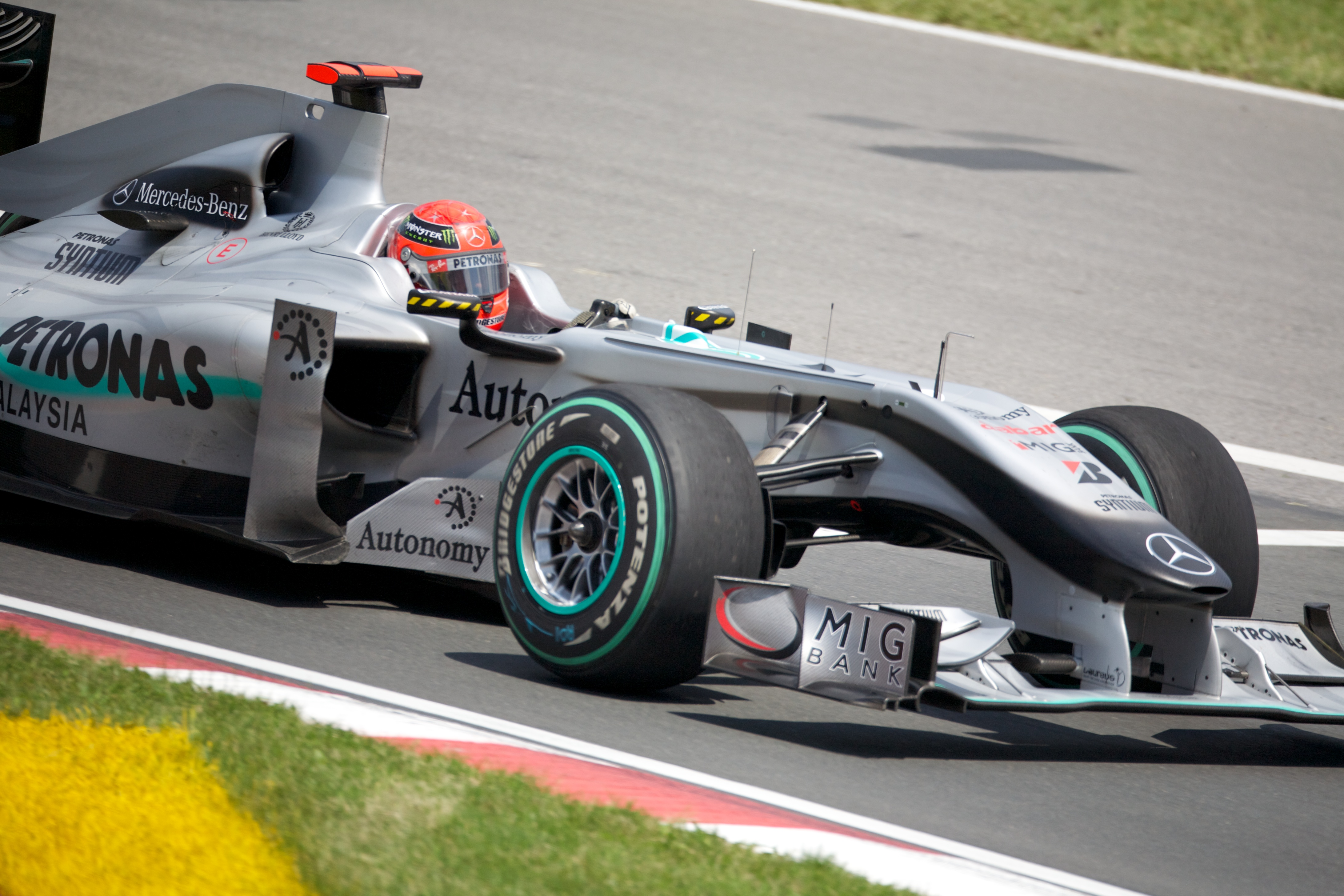 Schumacher at Canada